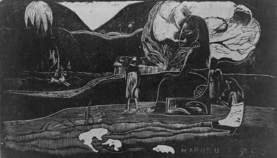 "Maruru" by Paul Gauguin (1848-1903). Tahitian offerings of gratitude to large statue of sacred Tahitian idol Hina, landscape in background. Print on japan paper: woodcut, color, 20.5 x 35.6 cm. Printed by Louis Roy. Signed with initials on woodblock. Inscribed in ink: "Du Tahiti lointain ce qu'y vit Gauguin - une idole repue." ["What Gauguin saw in faraway Tahiti - a sated idol."]